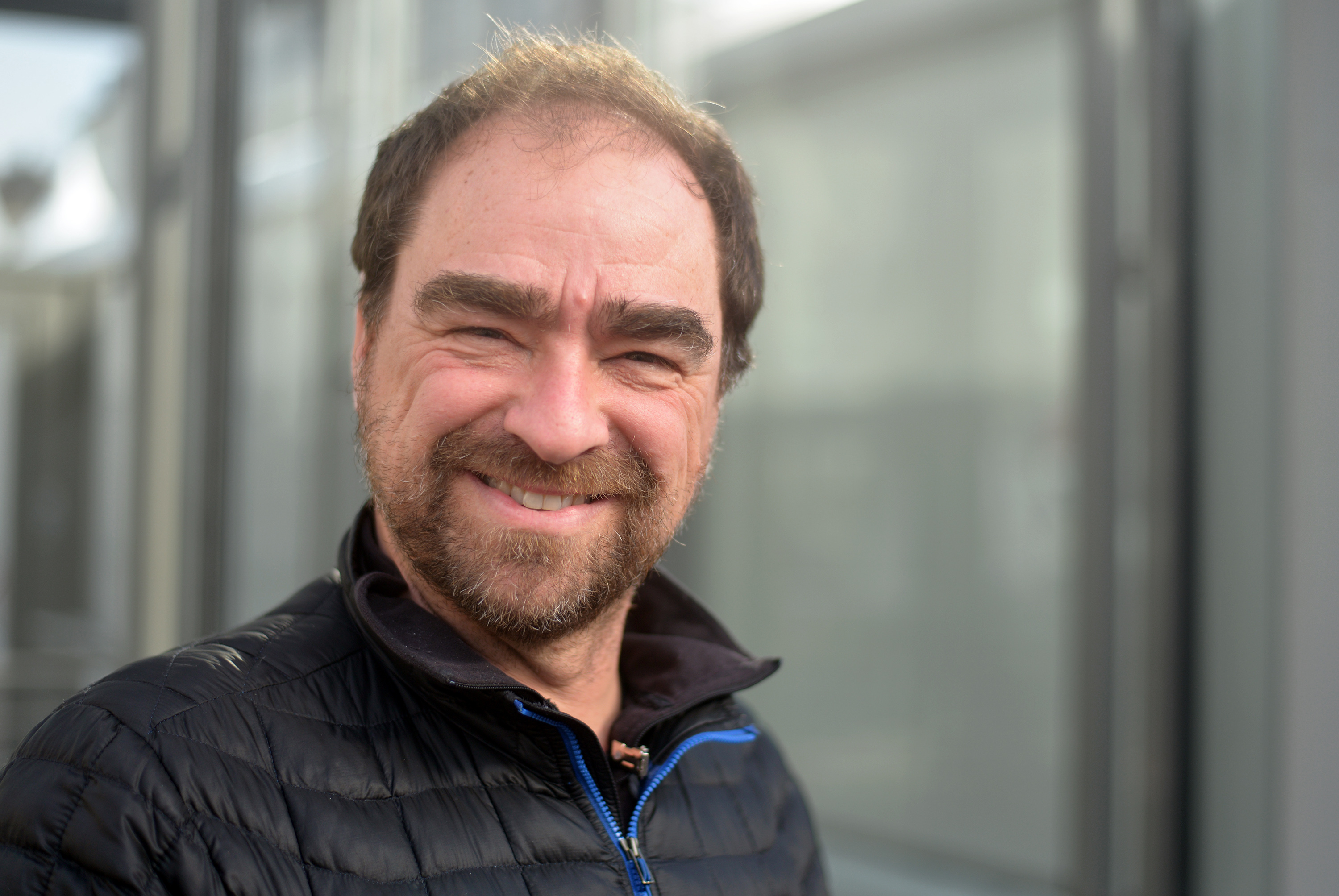 French Canadian comics artist Michel Rabagliati at Angoulême International Comics Festival in 2016.